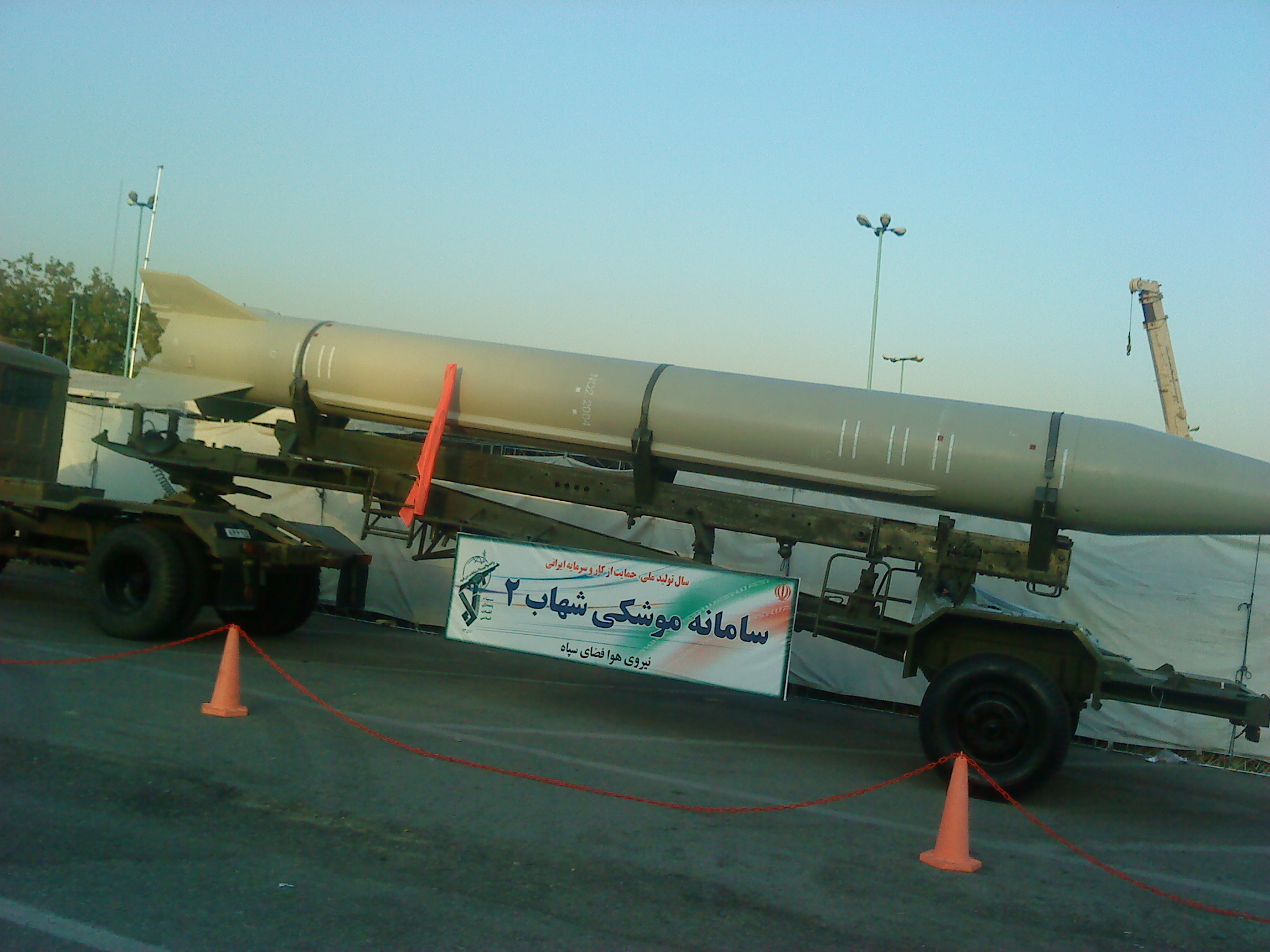 shahab 2 tehran 2012